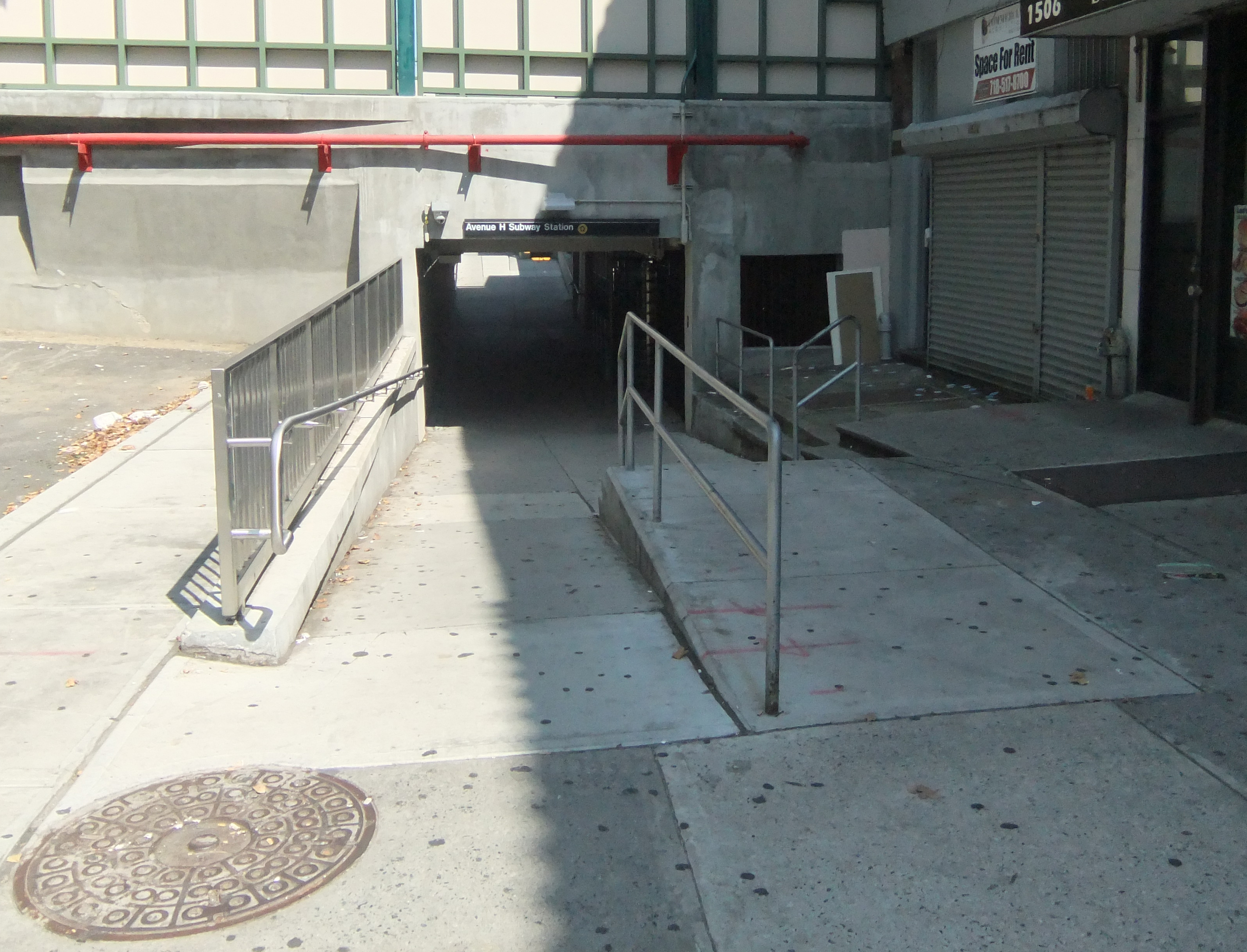 Walkway under East 16th Street to the Avenue H station.